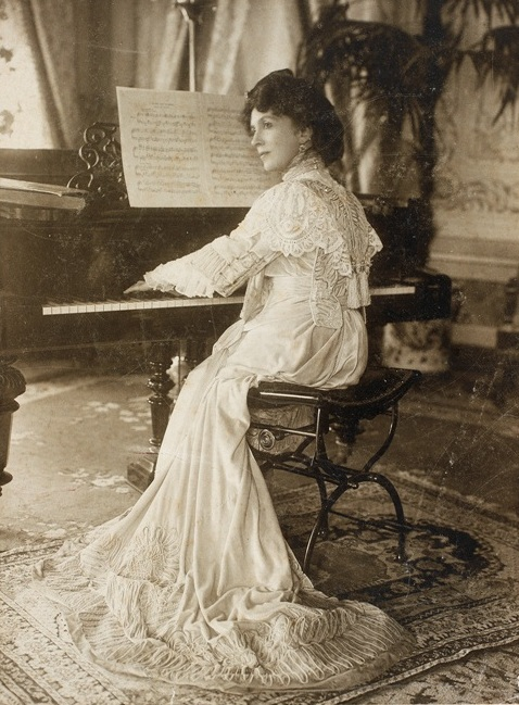 Fehime was the daughter of Ottoman Sultan Murad V (1840–1904) and his fourth wife the Georgian Meyliservet Haseki Kadın Efendi.